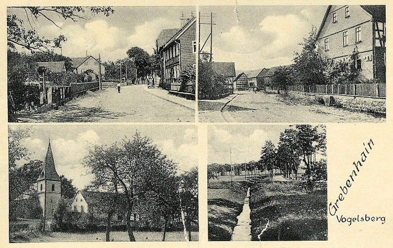 Old postcard from Grebenhain, Hesse, Germany.